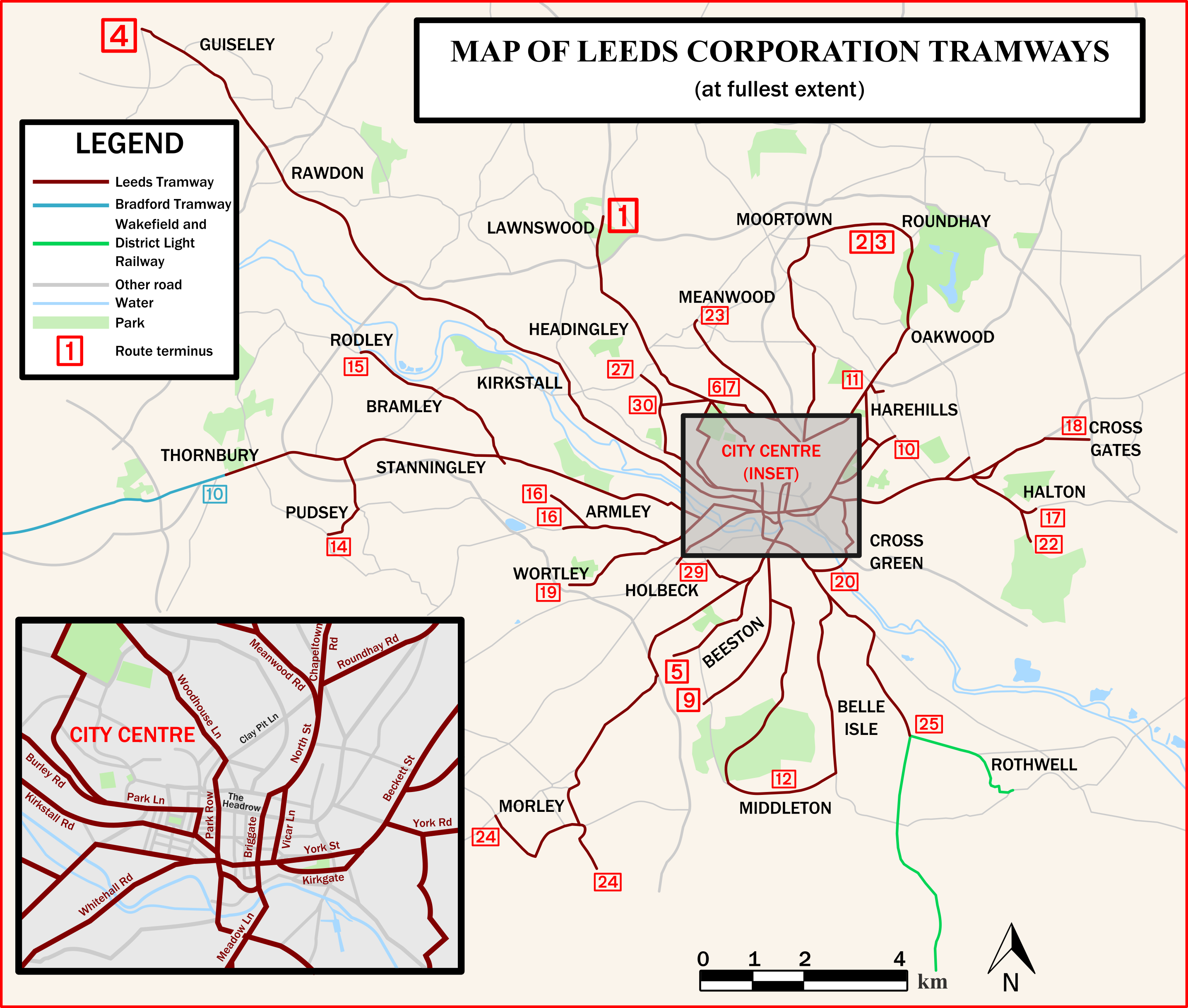 A map of the Leeds Corporation Tramways as of closure in 1959, including inset of city centre, route termini numbers, scale and legend. Data compiled from Tundria and Rail Map Online.